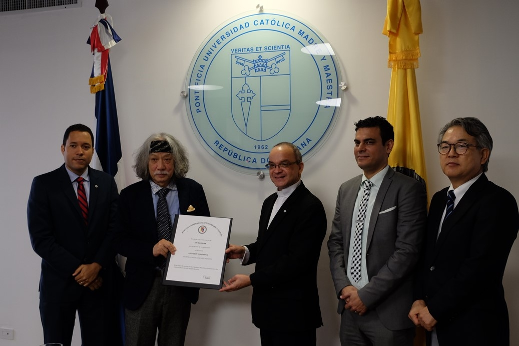 Ramón Alfredo de la Cruz Baldera, President of Pontificia Universidad Católica Madre y Maestra, conferred a honorary doctorate on Jin Akiyama, Specially Appointed Vice President of Tokyo University of Science, with Hiroyuki Makiuchi, Ambassador to Dominican Republic, at Pontificia Universidad Católica Madre y Maestra in Dominican Republic on October 5, 2018.